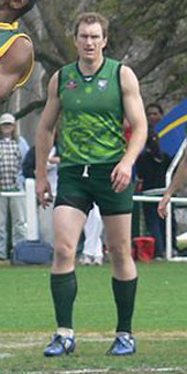 cropped image of Joe Cunnane from file below